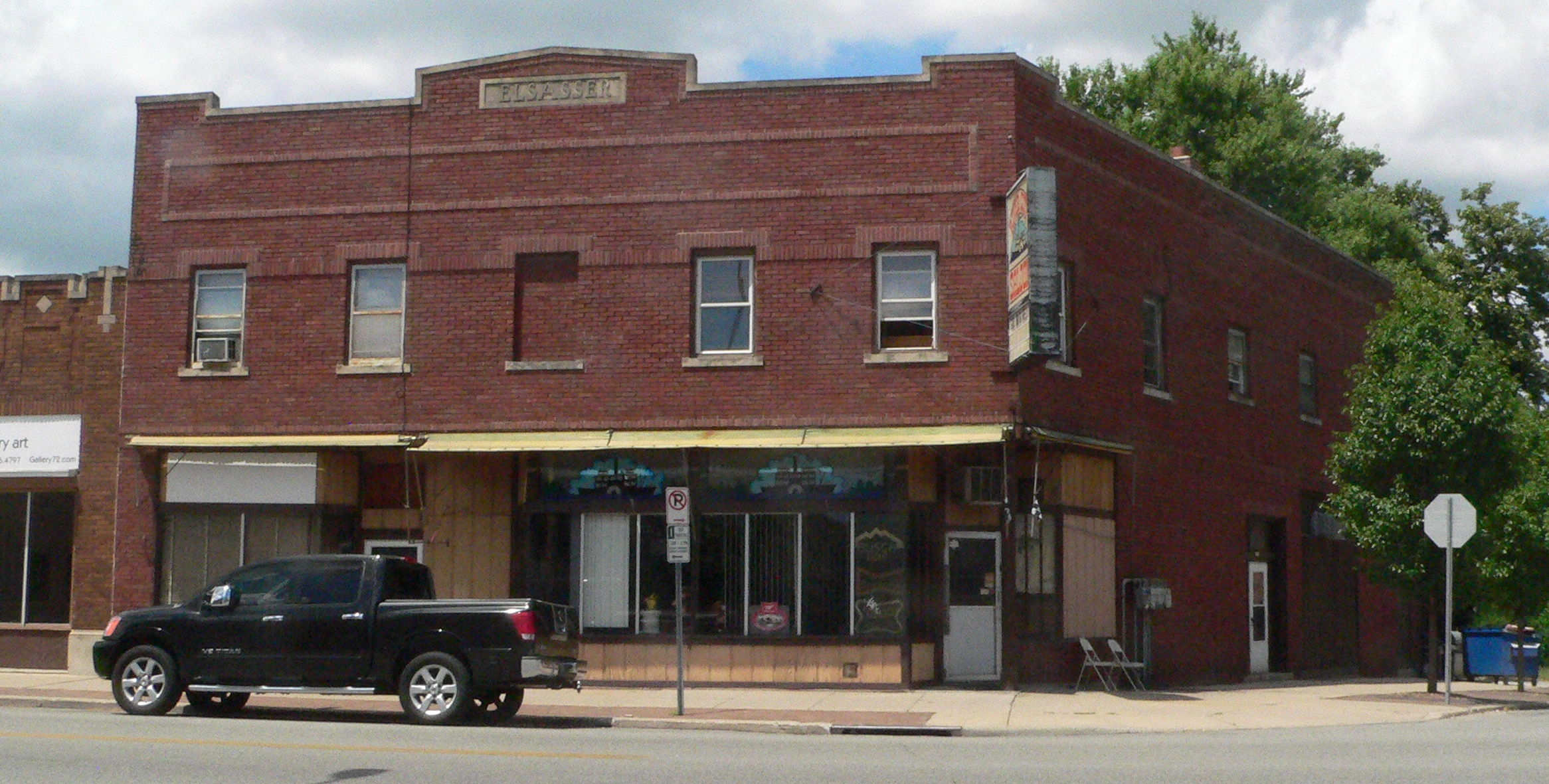 The William L. Elsasser Bakery Building at 1802-1804 Vinton Street in Omaha, Nebraska. The building is a contributing property in the Vinton Street Commercial Historic District, listed in the National Register of Historic Places.